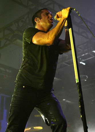 Trent Reznor performing in San Diego, California